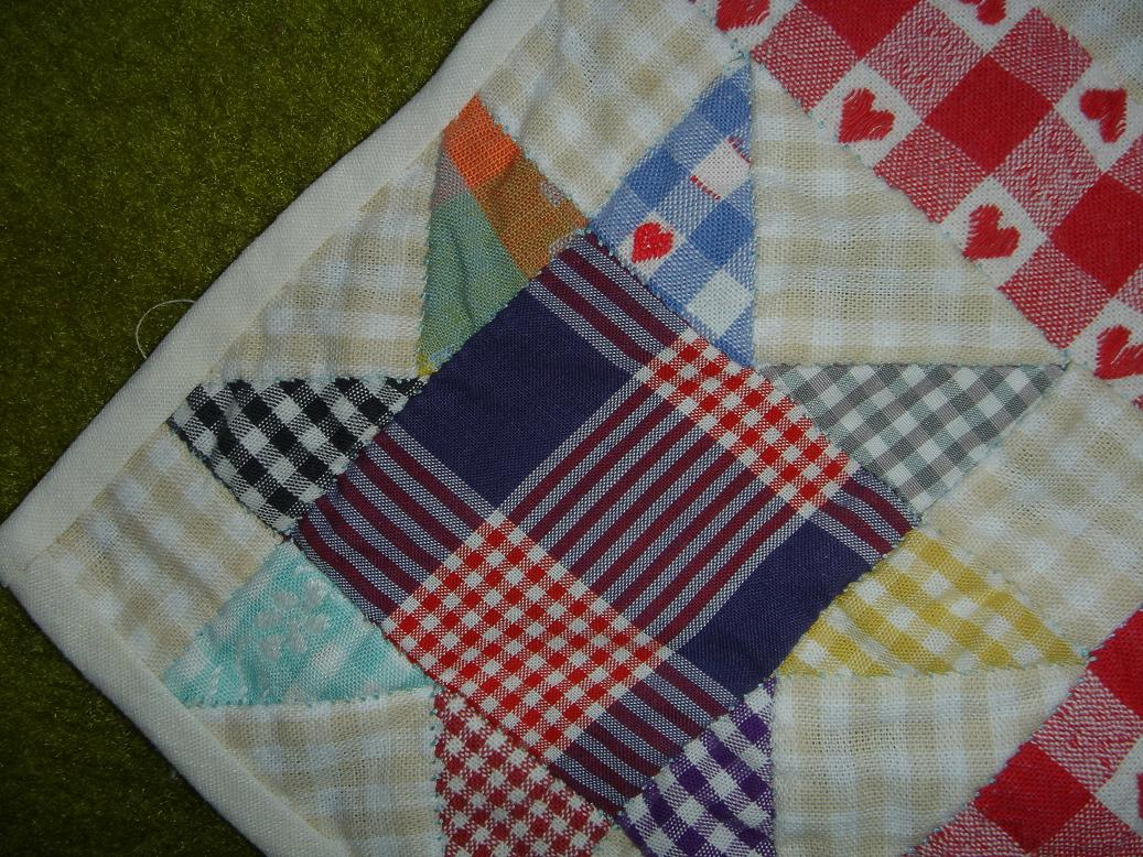 my mom added the edging and chopped off the points of the stars a little.